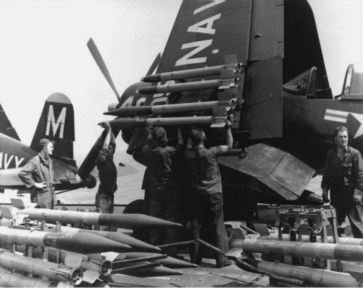 U.S. Navy ordnancemen load "Ram" (lower) and HVAR "Holy Moses" (upper) rockets on a Vought F4U-4B Corsair of Fighter Squadron 64 (VF-64) "Freelancers" aboard the aircraft carrier USS Philippine Sea (CV-47), off the Korean coast, 21 May 1951. VF-64 was assigned to Carrier Air Group 2 (CVG-2) aboard the Philippine Sea for a deployment to Korean from 28 March to 9 June 1951.